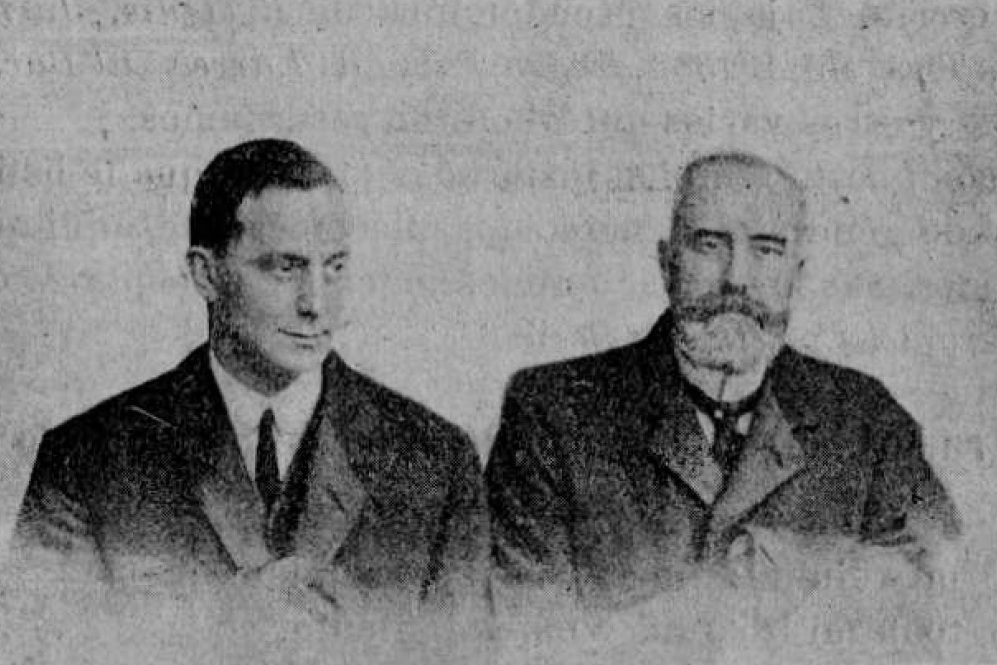 José Pascual de Liñán y Eguizábal